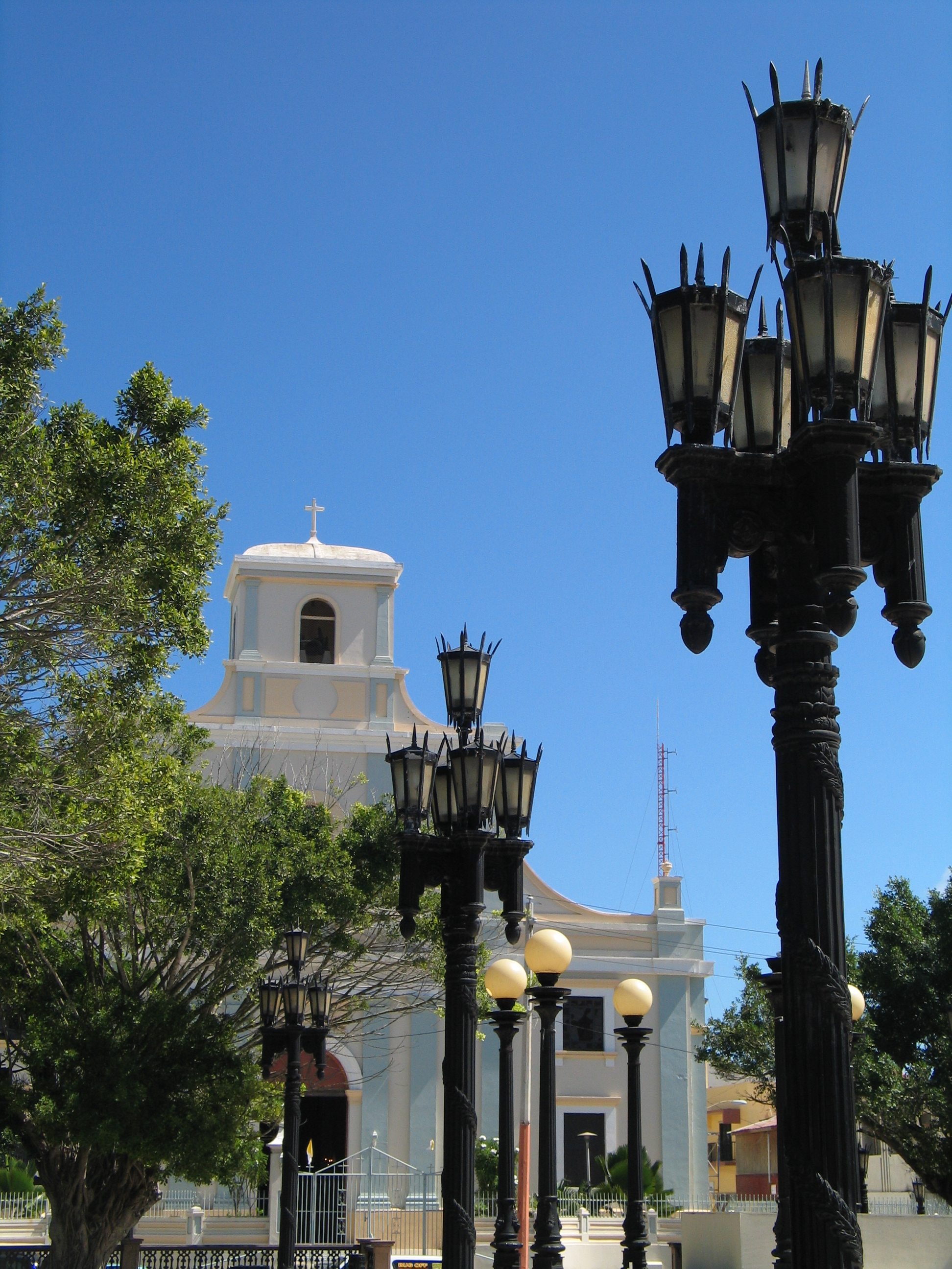 Mulitple pedestal lamp post lanterns beside the cathedral of Arecibo, Puerto Rico